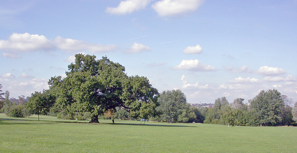 Across Cannon Hill Common to Wimbledon - late summer. View NE from near Cannon Hill Lane (and site of former Cannon Hill House, demolished in the 1930's). Wimbledon village is in the distance.